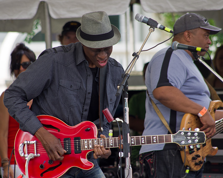 Keb' Mo' performing at the Houston International Festival